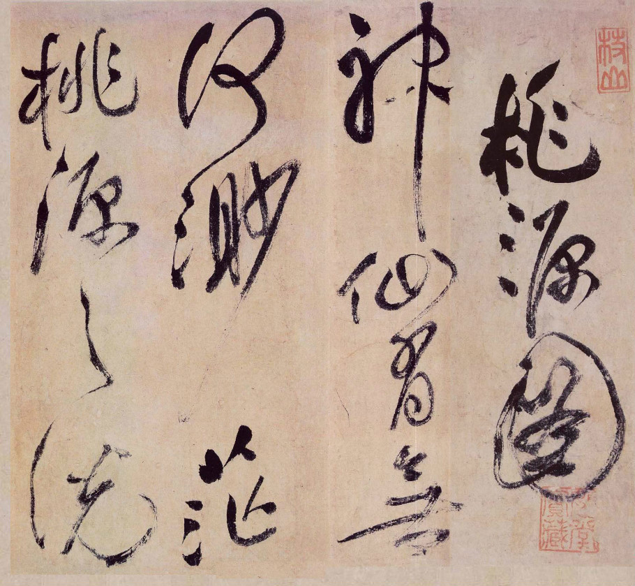 Tao Yuan Tu, calligraphy by Ming dynasty calligrapher Zhu Yunming, poem by Tang dynasty poet Han Yu